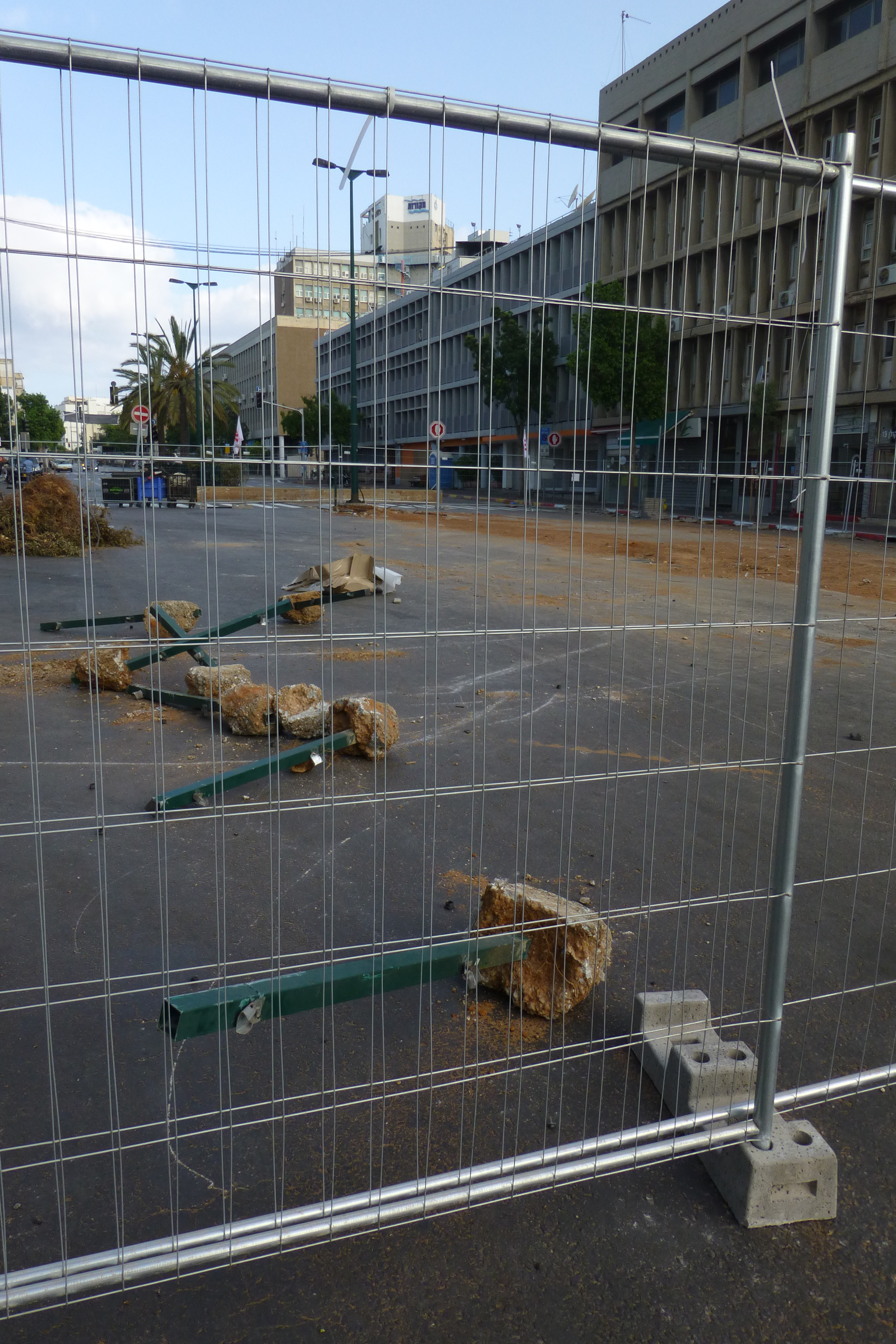 Demolition of bridge Ma'ariv